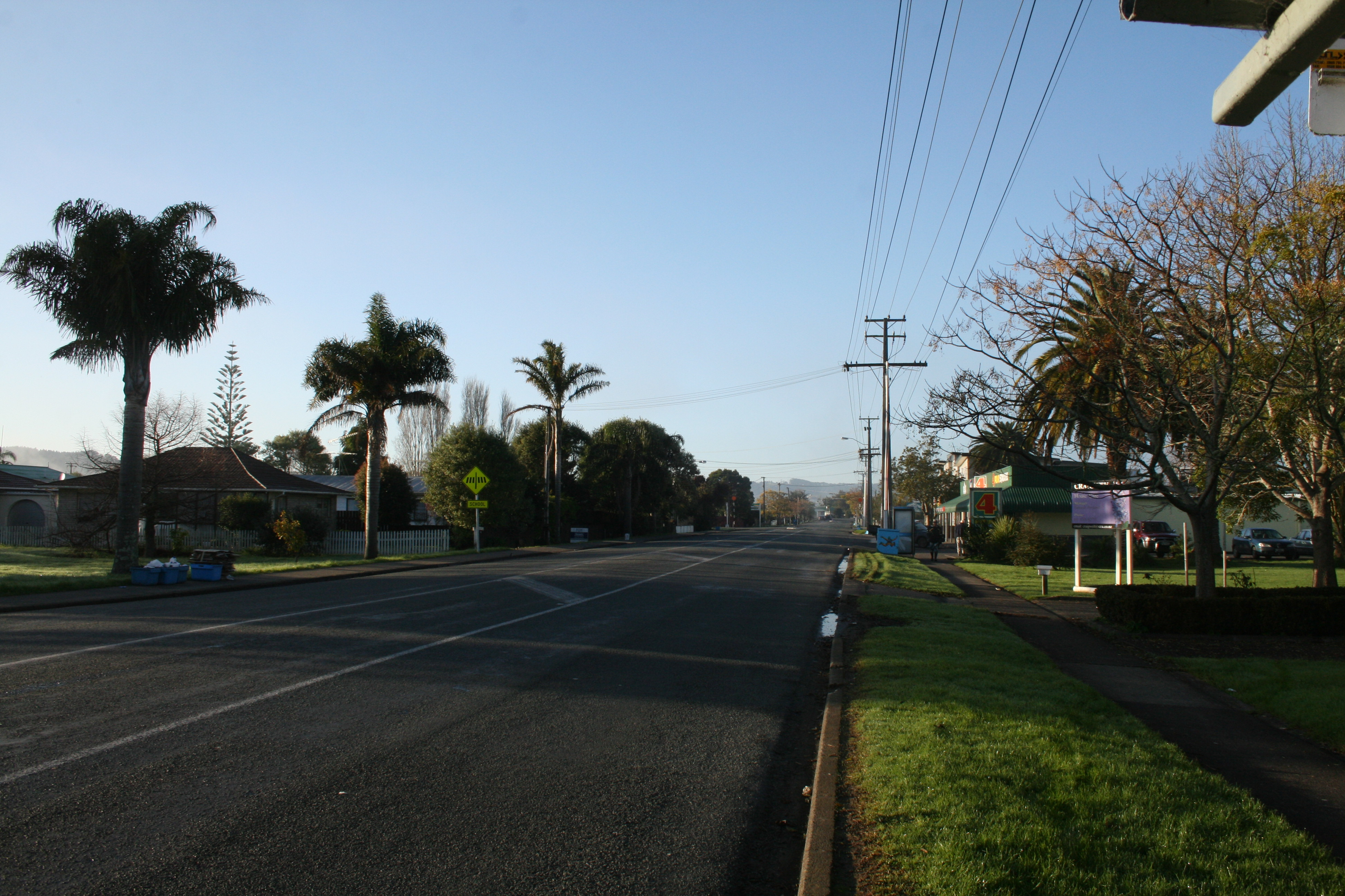 Parakai, part of Helensville, New Zealand.